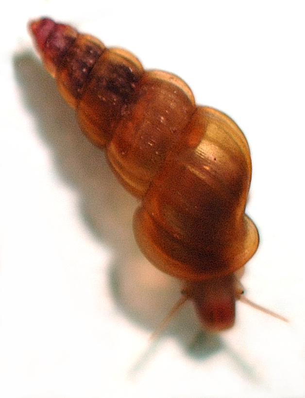 Photo of Oncomelania hupensis hupensis.